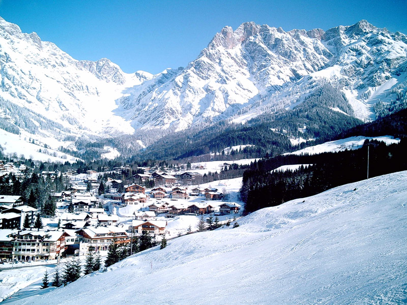 High King Mountain from Hinterthal